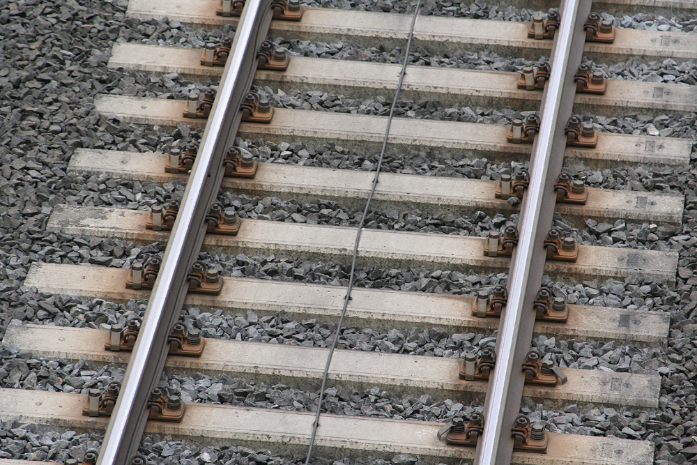 Tracks on ballast on the Hannover-Wurzburg high-speed line, near joint clearance.